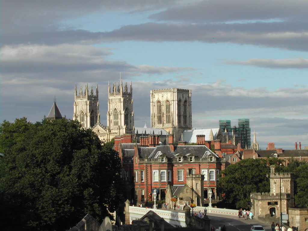 from Hasso Weber - Scotland motorcycle-tour in 2005 (date: 17.08.2005)